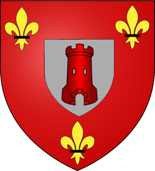 Coat of arms of the former municipality of Bastendorf, Luxembourg